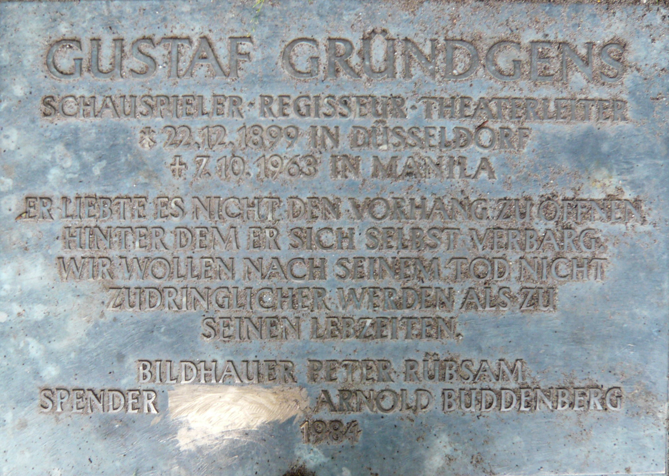 in memory Gustaf Gründgens